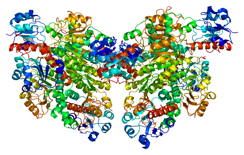 Structure of the CTBP2 protein. Based on PyMOL rendering of PDB 2ome.